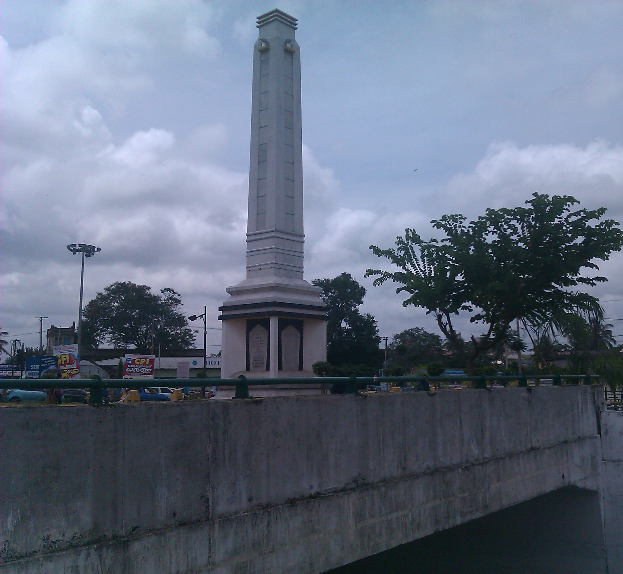 Martyr's Column at palayam , trivandrum